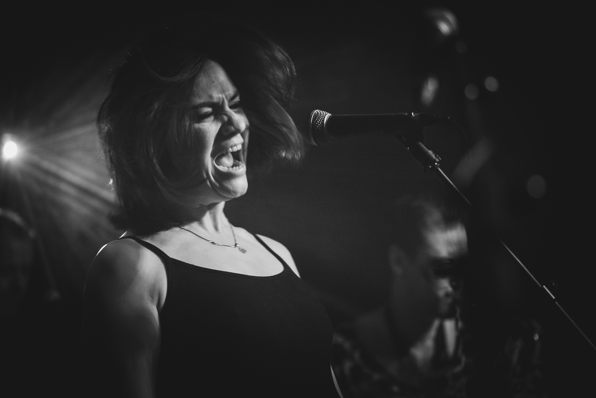 Nadine Shah